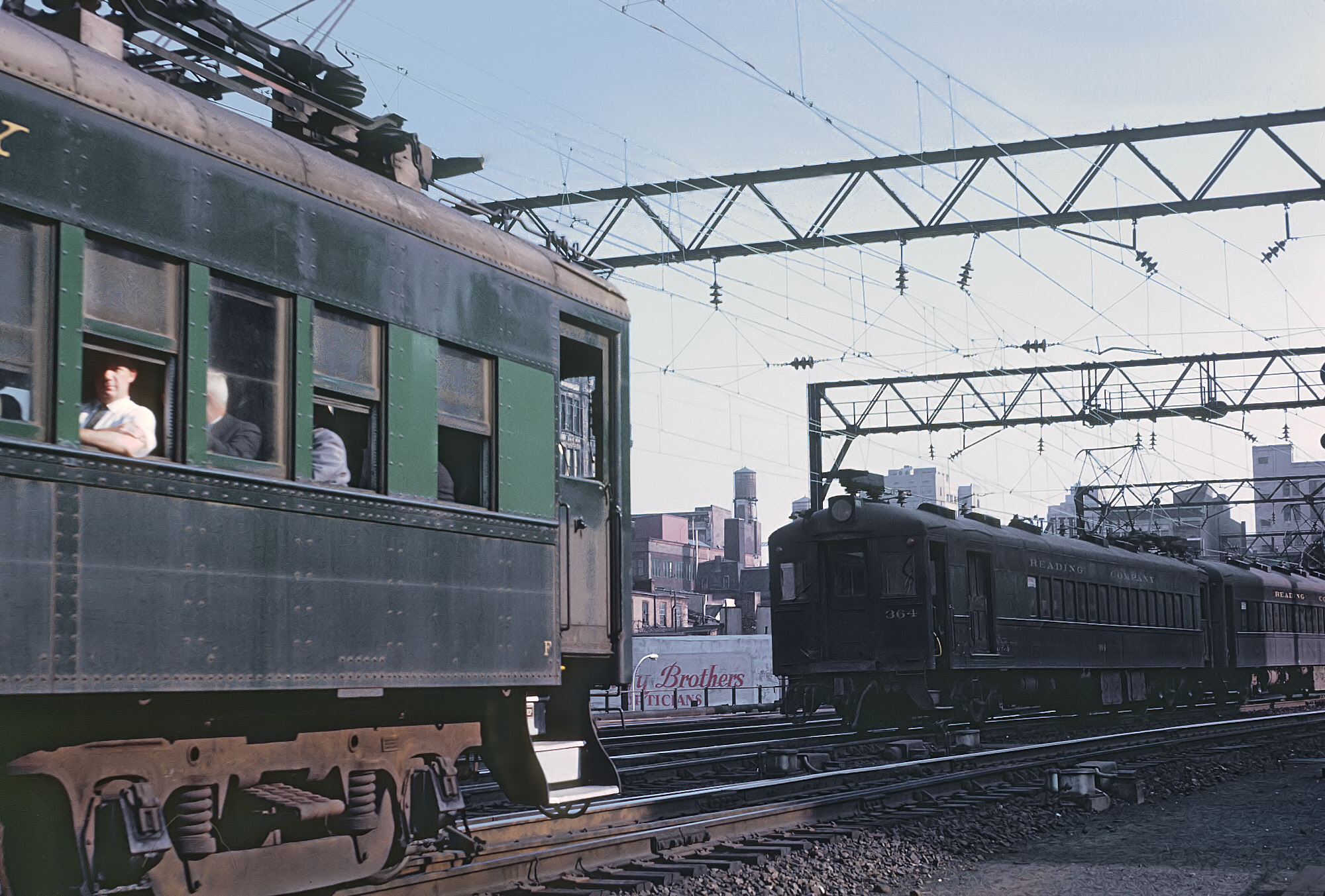 Roger Puta Photograph